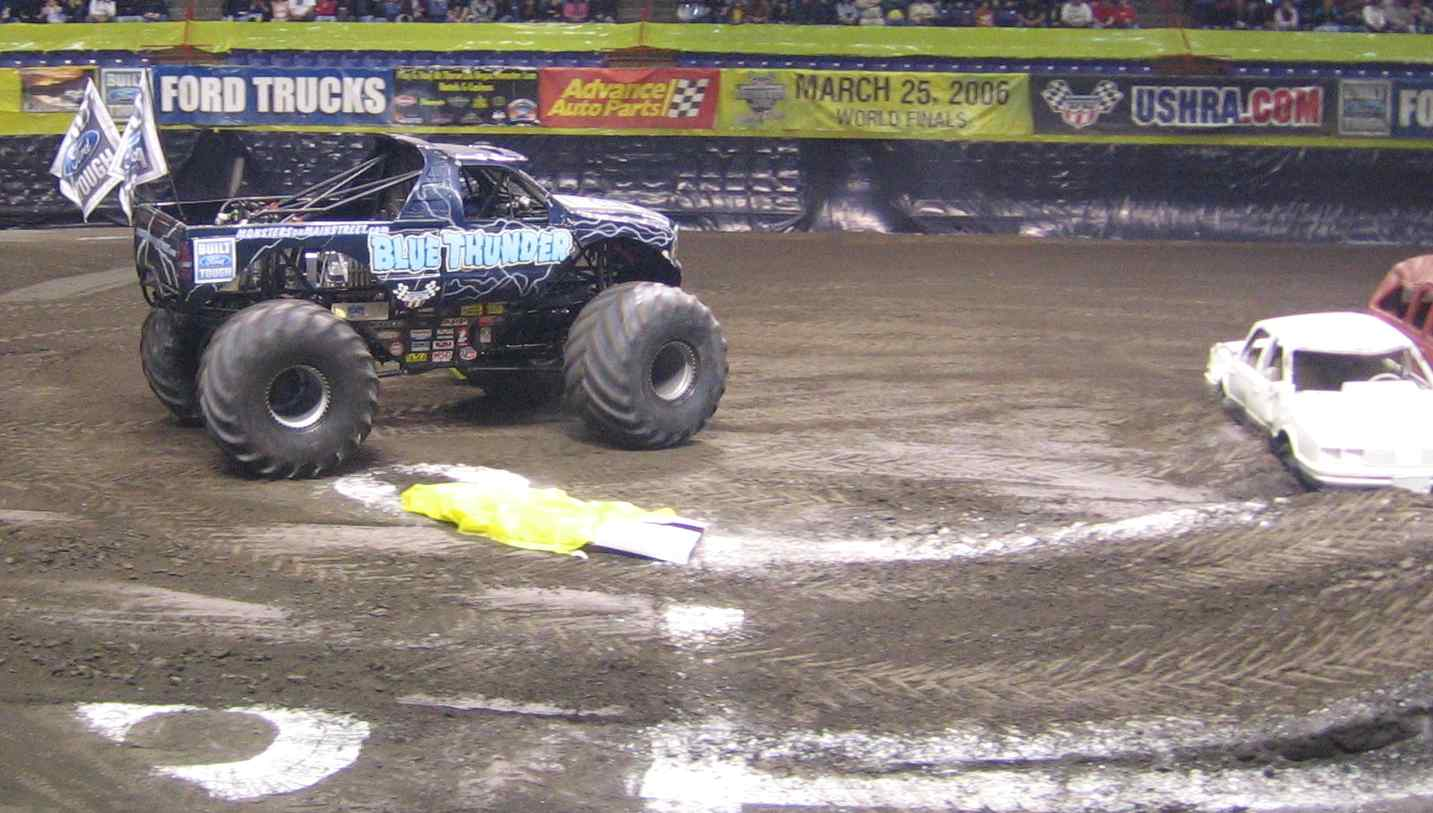 Blue Thunder monster truck, at the March 2006 Monster Truck Jam in Spokane, Washington.